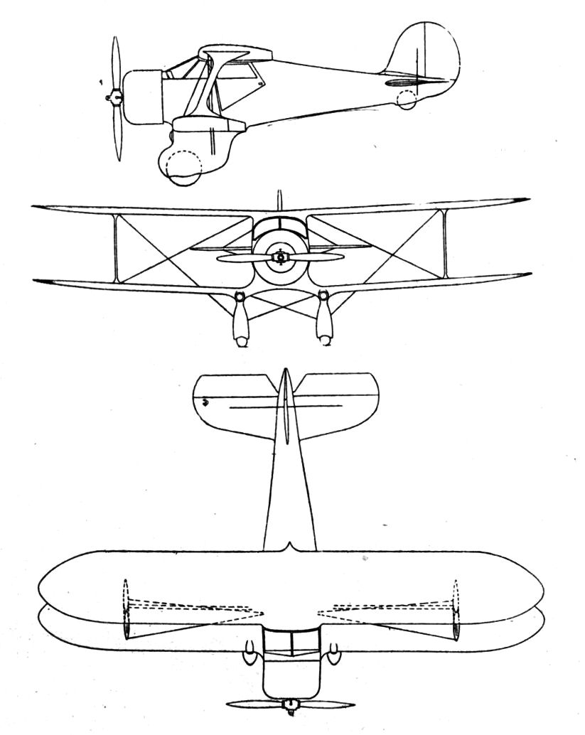 Beech 17R 3 view from l'Aerophile magazine January 1933